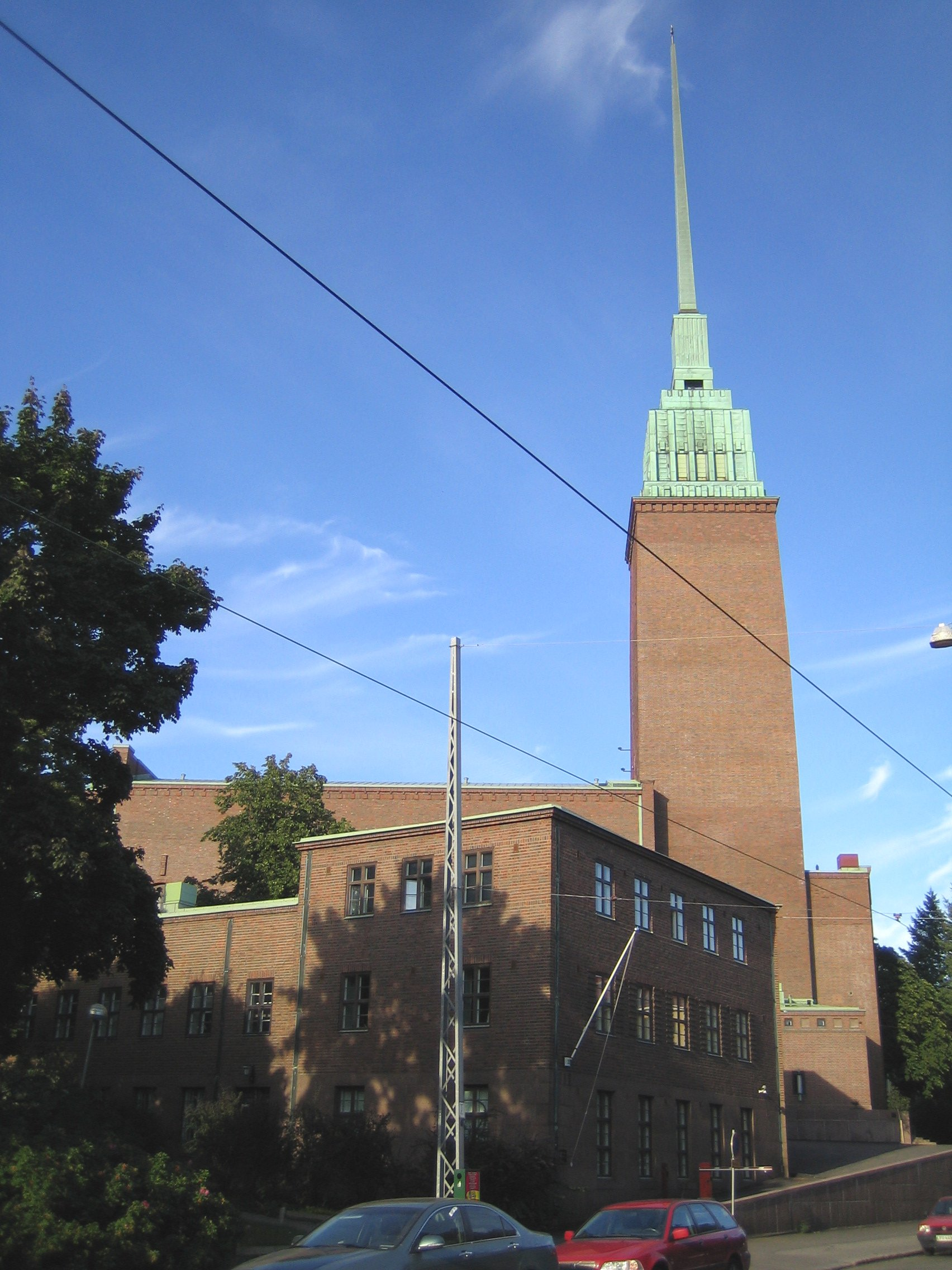 Mikael Agricola church, Helsinki. Erected 1935. Architect Lars Sonck.